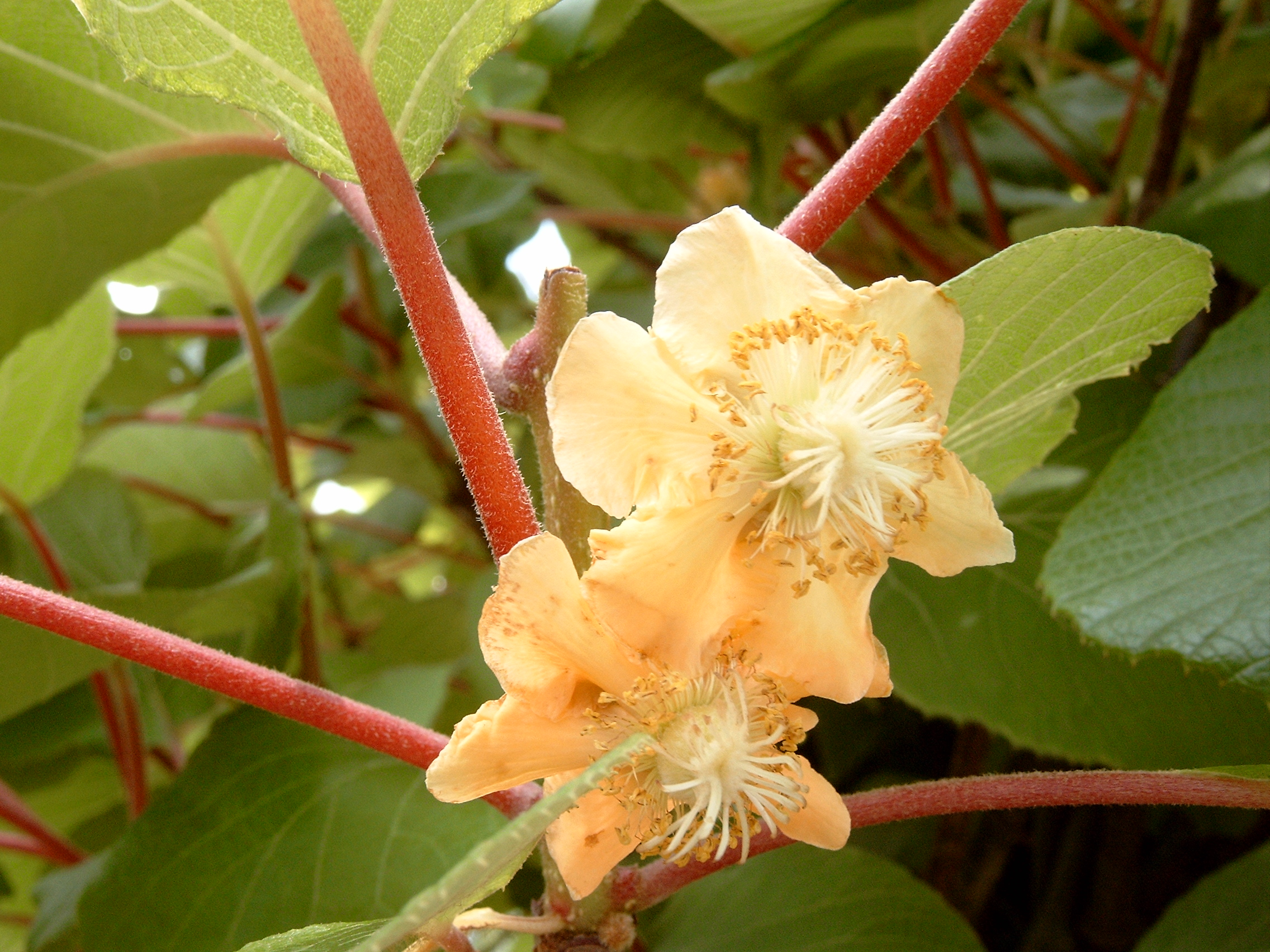 flowers of Actinidia chinensis, Kiwifruit, taken in the Botanical Garden of Frankfurt Univ.